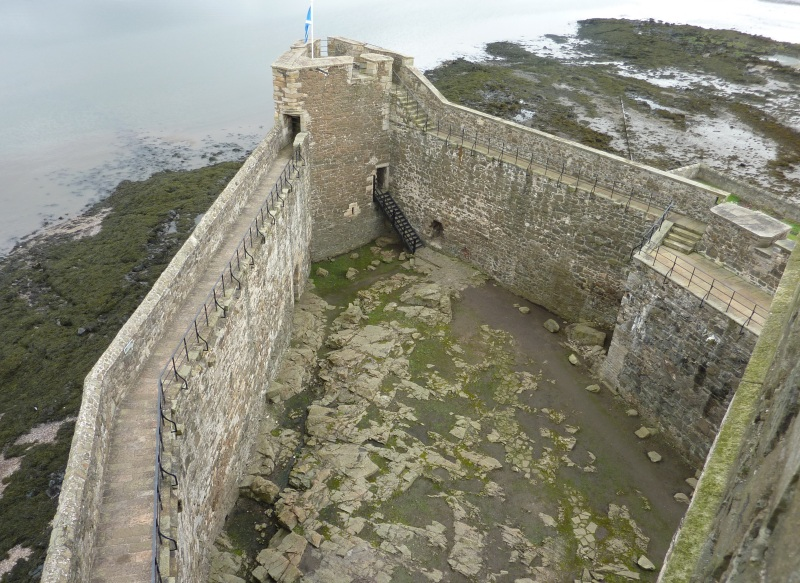 Blackness Castle, Falkirk, Scotland. Courtyard and north tower.